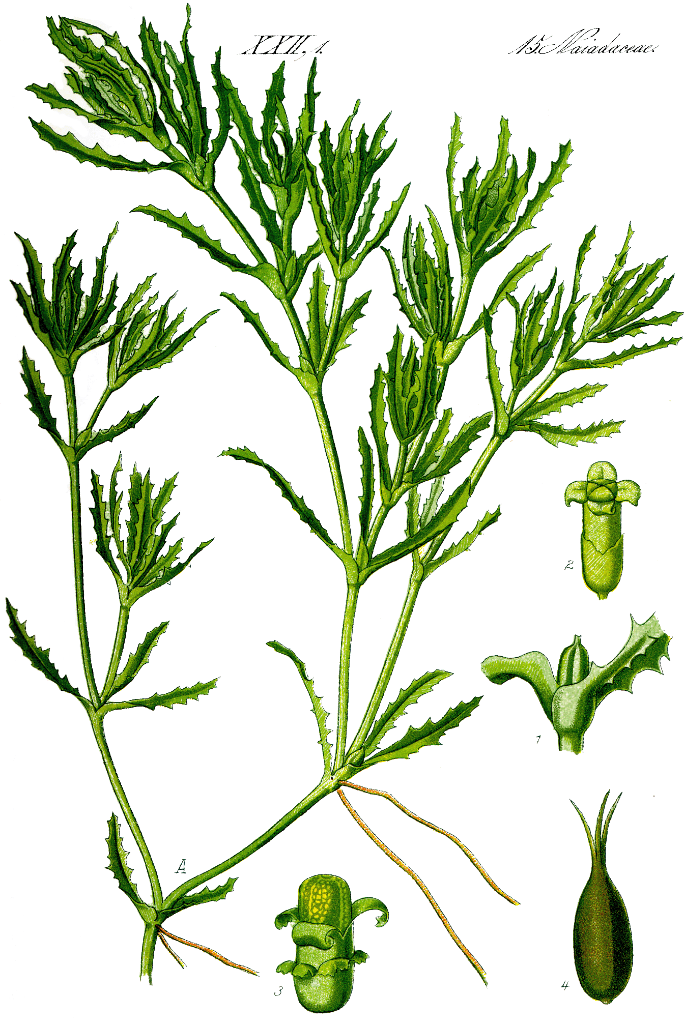 Najas marina from Flora von Deutschland Österreich und der Schweiz by Otto Wilhelm Thomé, 1885